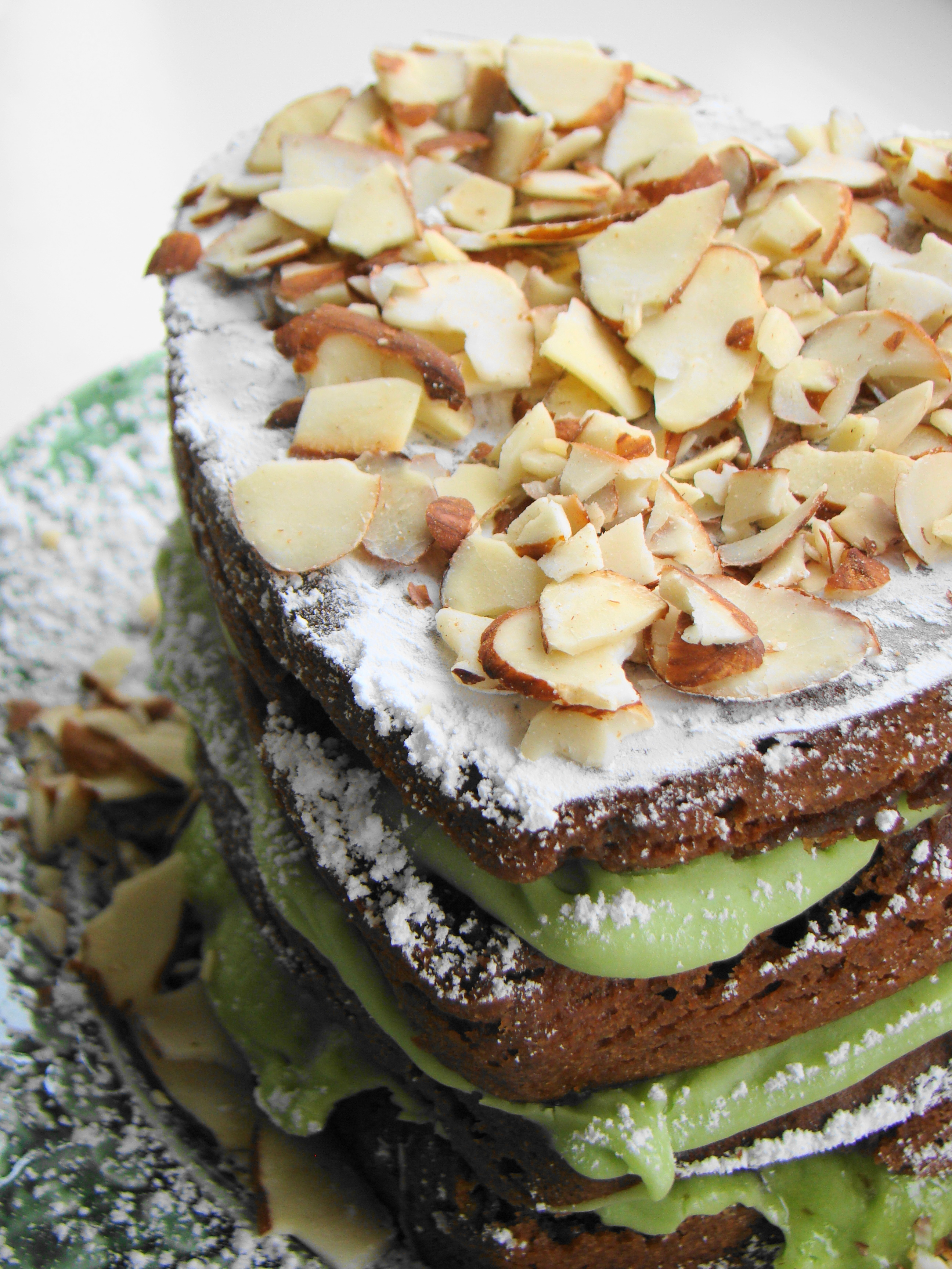 (Should be)Top secret yummy inside....fudgy coconut kreme inside of cake.